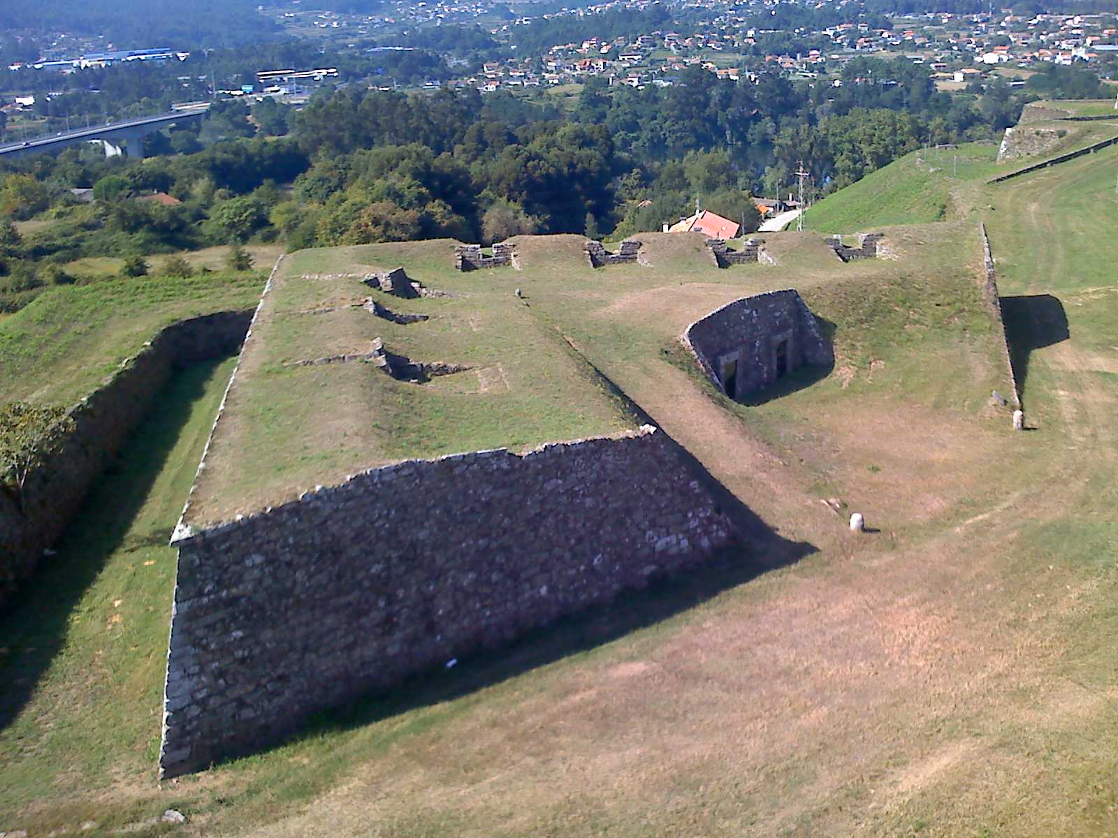 Ravelin of Valença Fortress, Portugal